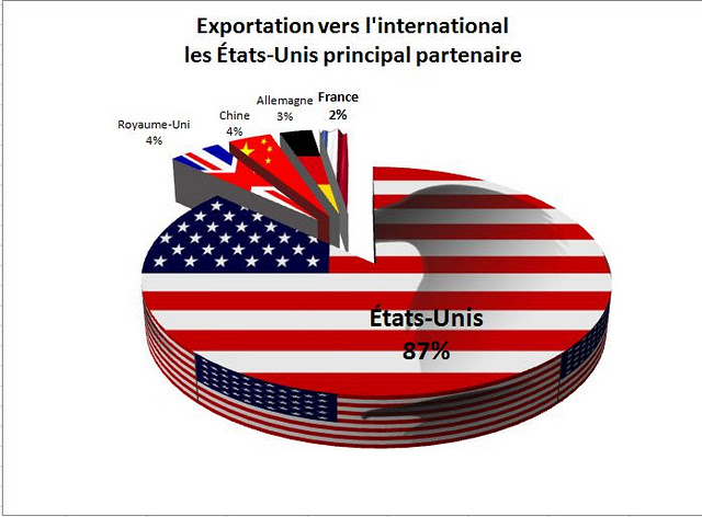 Exportation du Québec vers les États-Unis, la Chine, les Royaume-Unis, l'Allemage et la France